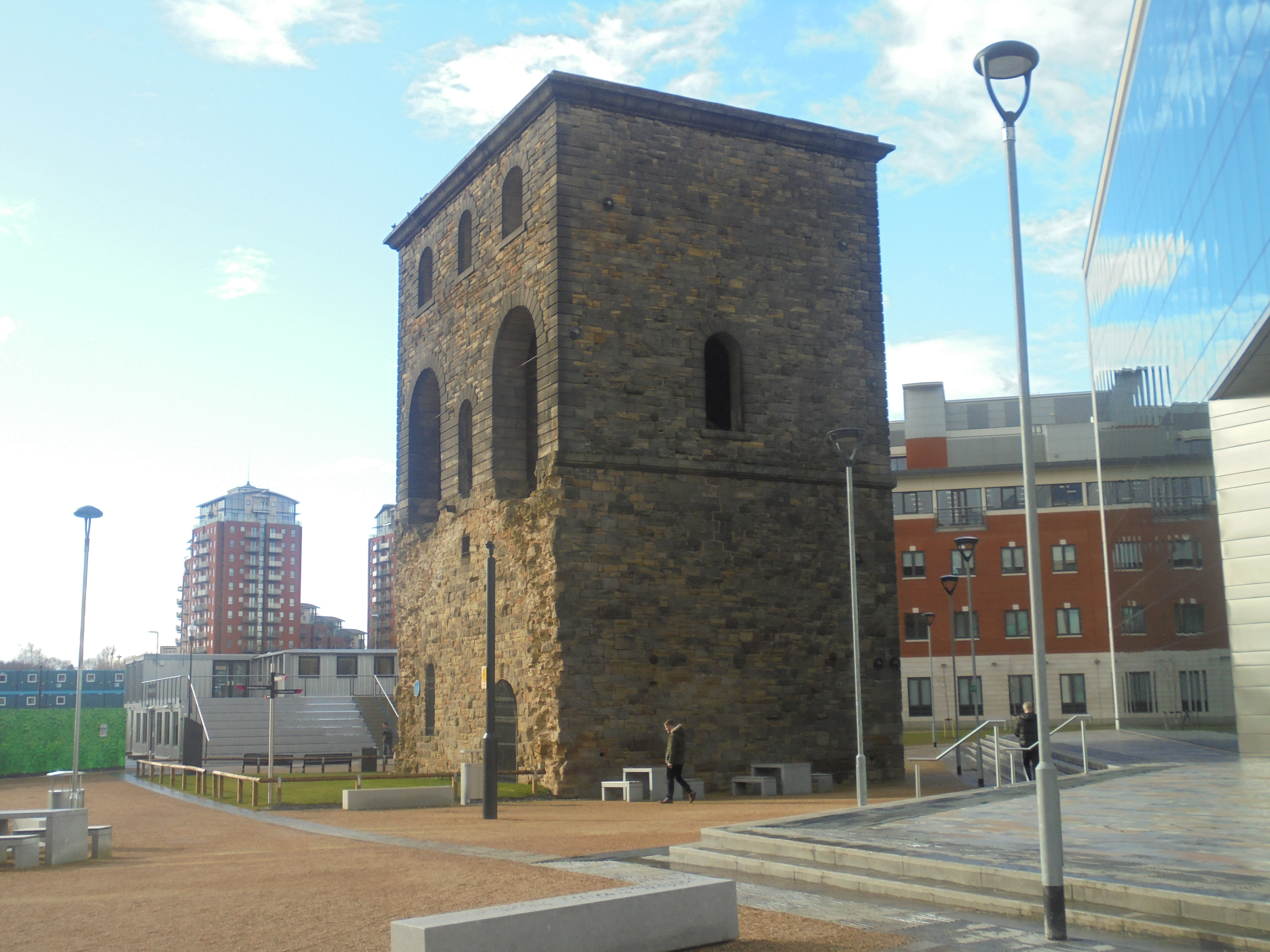 Remains of the former Leeds Central railway station, Leeds, West Yorkshire. Taken around midday on Tuesday the 27th of February 2018.